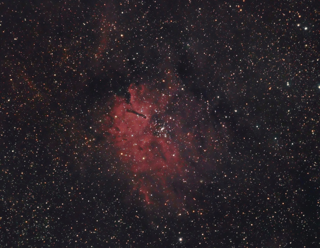 Open cluster NGC 6823 surrounded by the emission nebula Sharpless 2-86 (Sh 2-86) in HaRGB. Small knot in SW part of that nebula is called NGC 6820. Object: NGC 6820 (SEDS) Diffuse Nebula or Supernova Remnant, type EN, in Vulpecula Right Ascension (2000.0): 19:42:28.0 (h:m:s) Declination (2000.0): +23:05:15 (deg:m:s) m_b: 15.0 (mag) Dimension: 0.50 x 0.5 (arcmin) Cross Identifications: IRAS19403+2258, knot in Sh2-86 Object: NGC 6823 (SEDS) Open Cluster, type I3pn, in Vulpecula Right Ascension (2000.0): 19:43:09.8 (h:m:s) Declination (2000.0): +23:18:00 (deg:m:s) m_v: 7.1 (mag) Dimension: 7.00 (arcmin) Cross Identifications: OCL 124, LBN 135